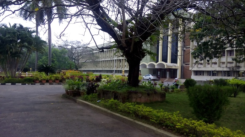 NITK Main Building